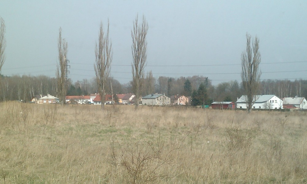 Village of Čankov (Karlovy Vary), Czech Republic.